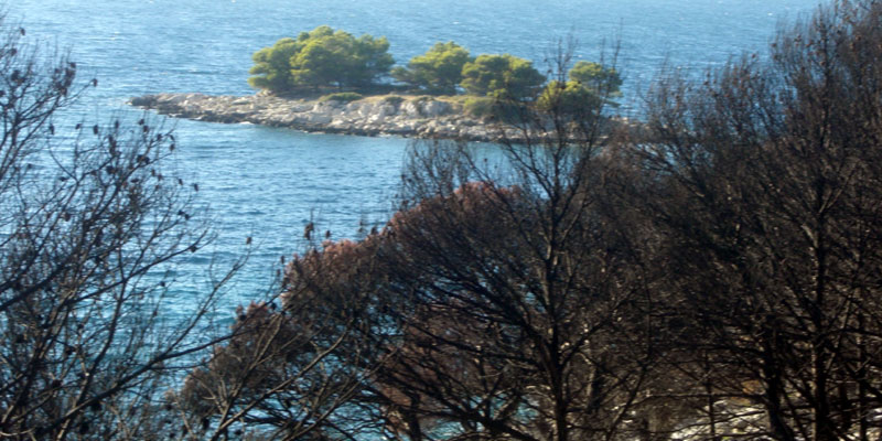 island of Krbelica, near Primošten, Croatia